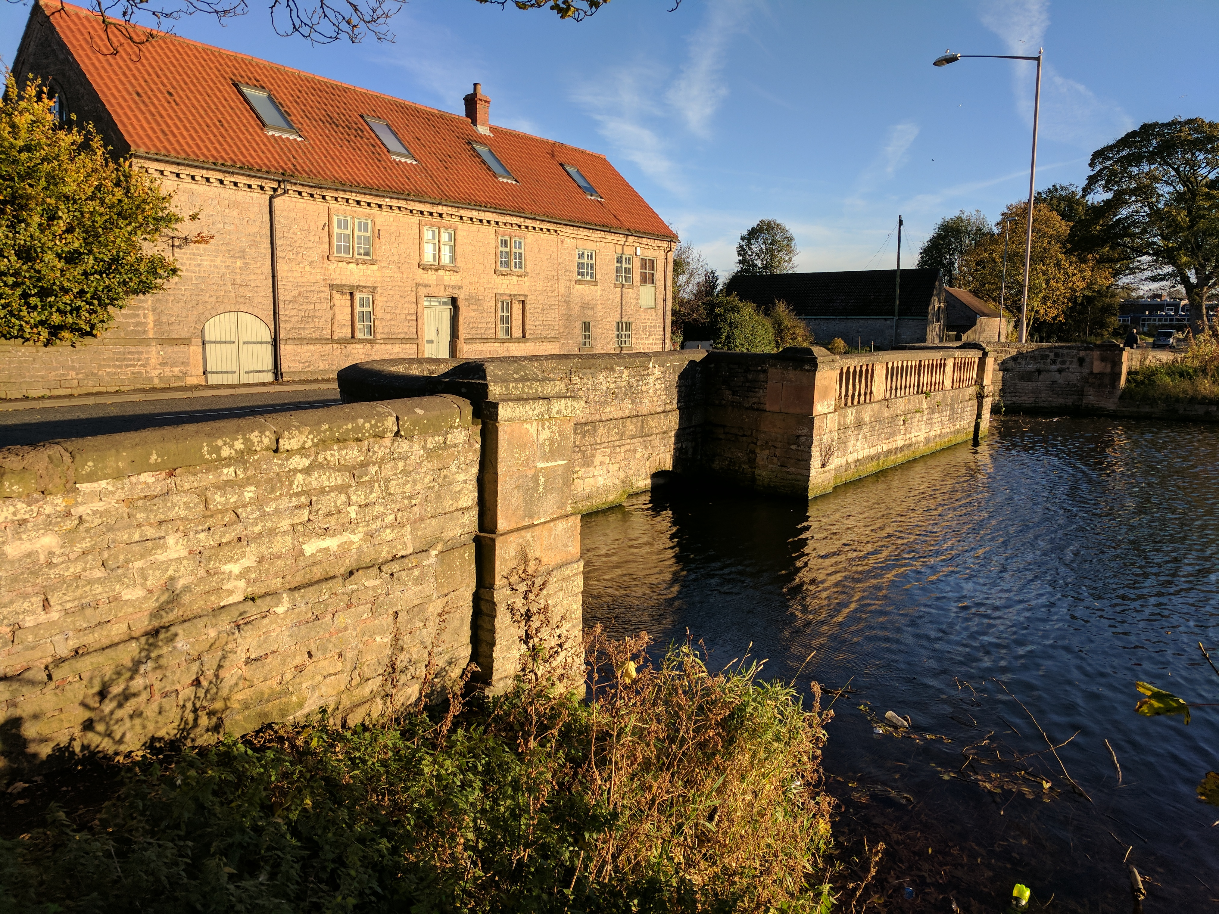 Warsop Mill Wikidata has entry Q26543817 with data related to this item.